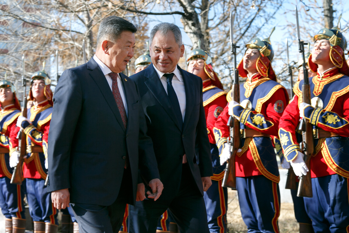 Министр обороны России провел в Улан-Баторе переговоры с премьер-министром Монголии